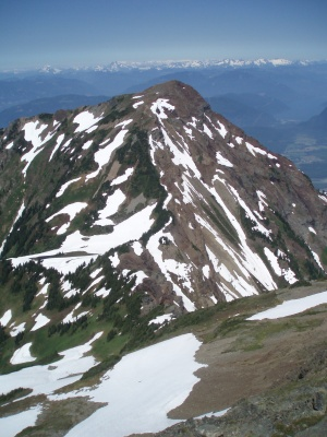 Mount Cheam from the south, taken while climbing Lady Peak in The Lucky Four Group.